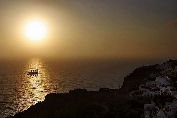 Sailboat in sunset from Oia, Santorini